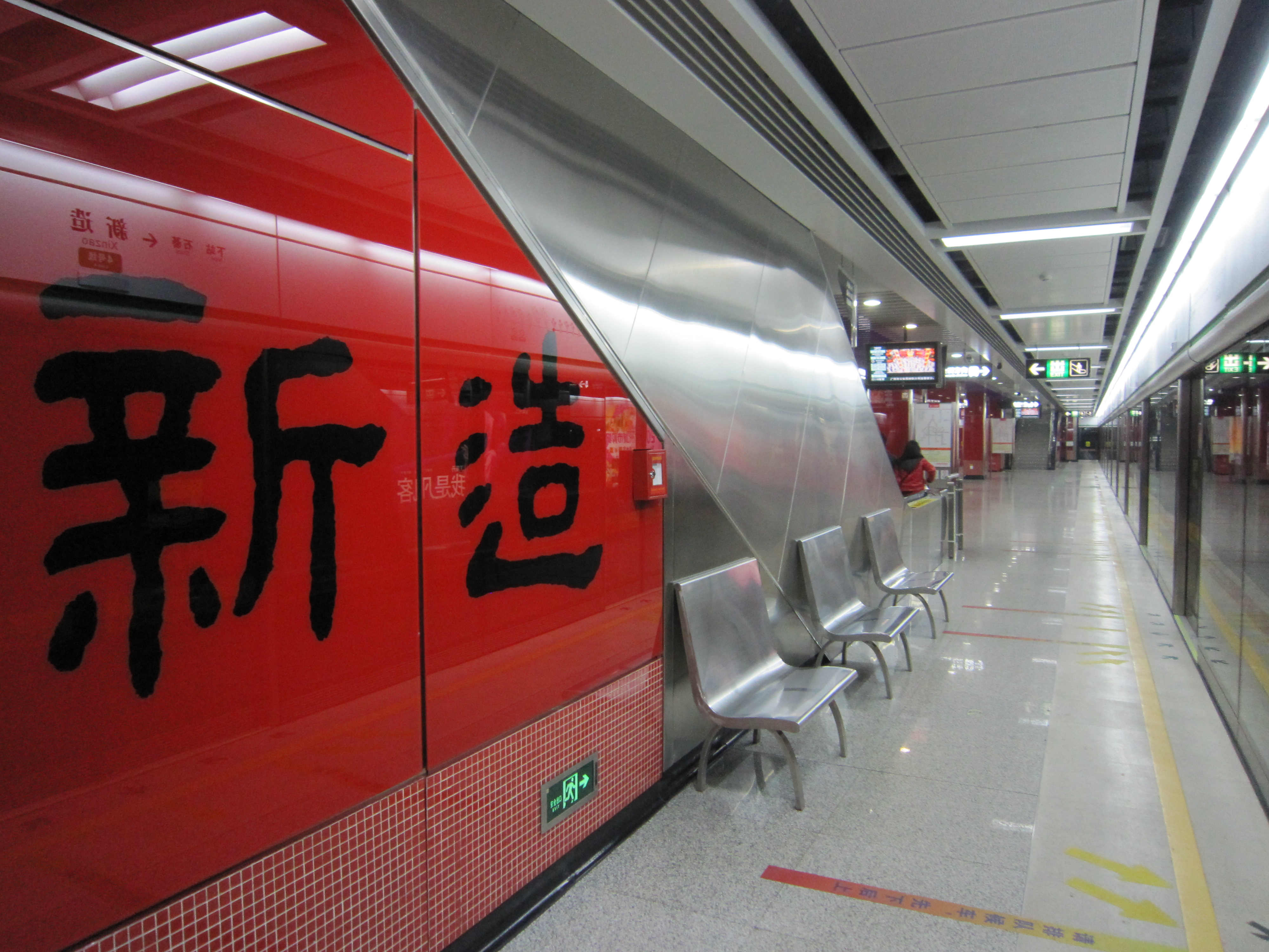 Xinzao Station of the Guangzhou Metro